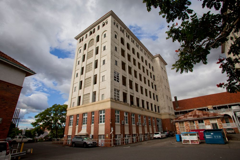 Nurses' Homes, Royal Brisbane Hospital (2012)